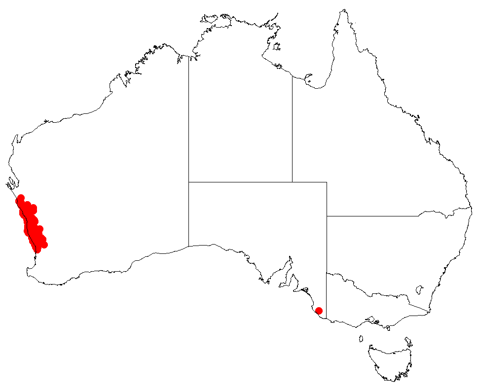 Hakea costata Occurrence data downloaded from Australasian Virtual Herbarium on 22 November 2018 using